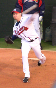 Chuck James 04:17, 15 May 2007 . . Chrisjnelson . . 185×287 (27 bytes)